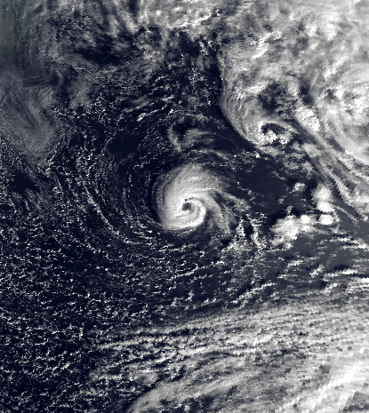 Hurricane Karl on November 26, 1980